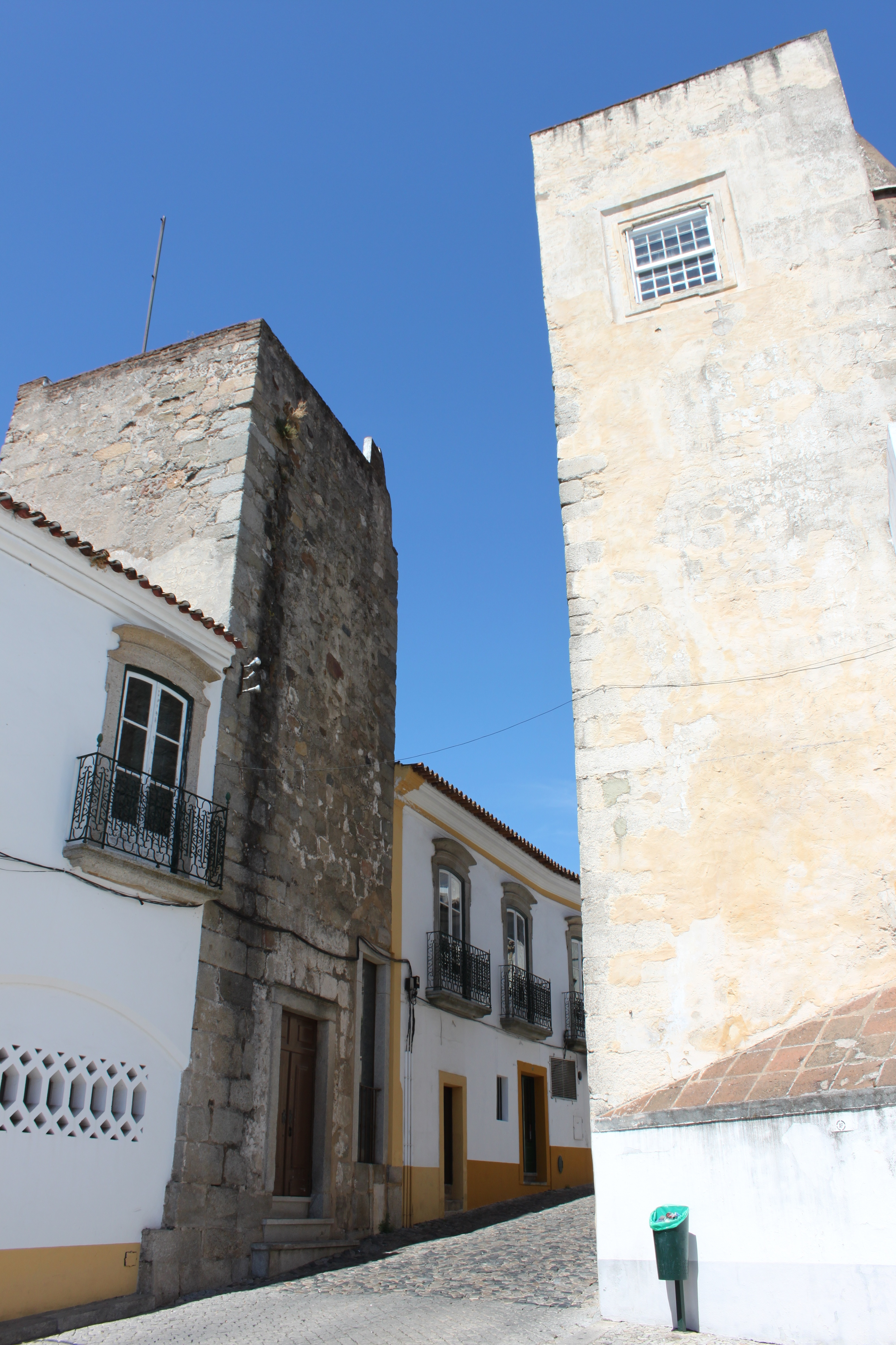 This file was uploaded for Wiki Loves Monuments in Portugal with the unique identifier 69830.